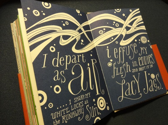 From Whitman Illuminated, illustrated by Allen Crawford